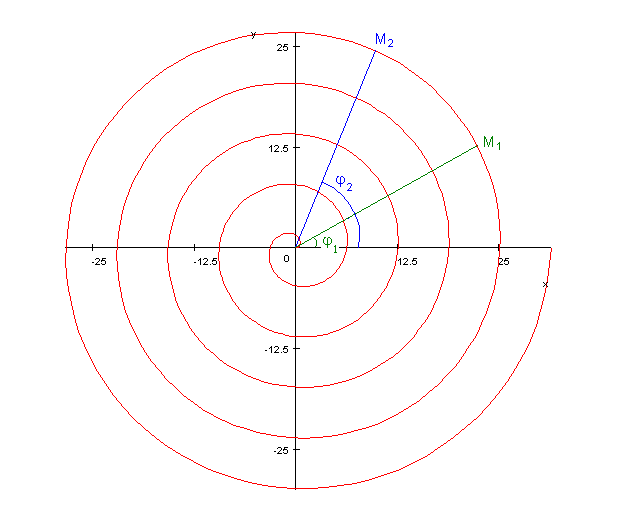 Archimedes' spiral with a sector M 1 O M 2 {\displaystyle M_{1}OM_{2 which surface is calculated due to the formula S = a 2 6 ( φ 2 3 − φ 1 3 ) {\displaystyle S={\frac {a^{2 {6 ({\varphi _{2 ^{3}-{\varphi _{1 ^{3})}